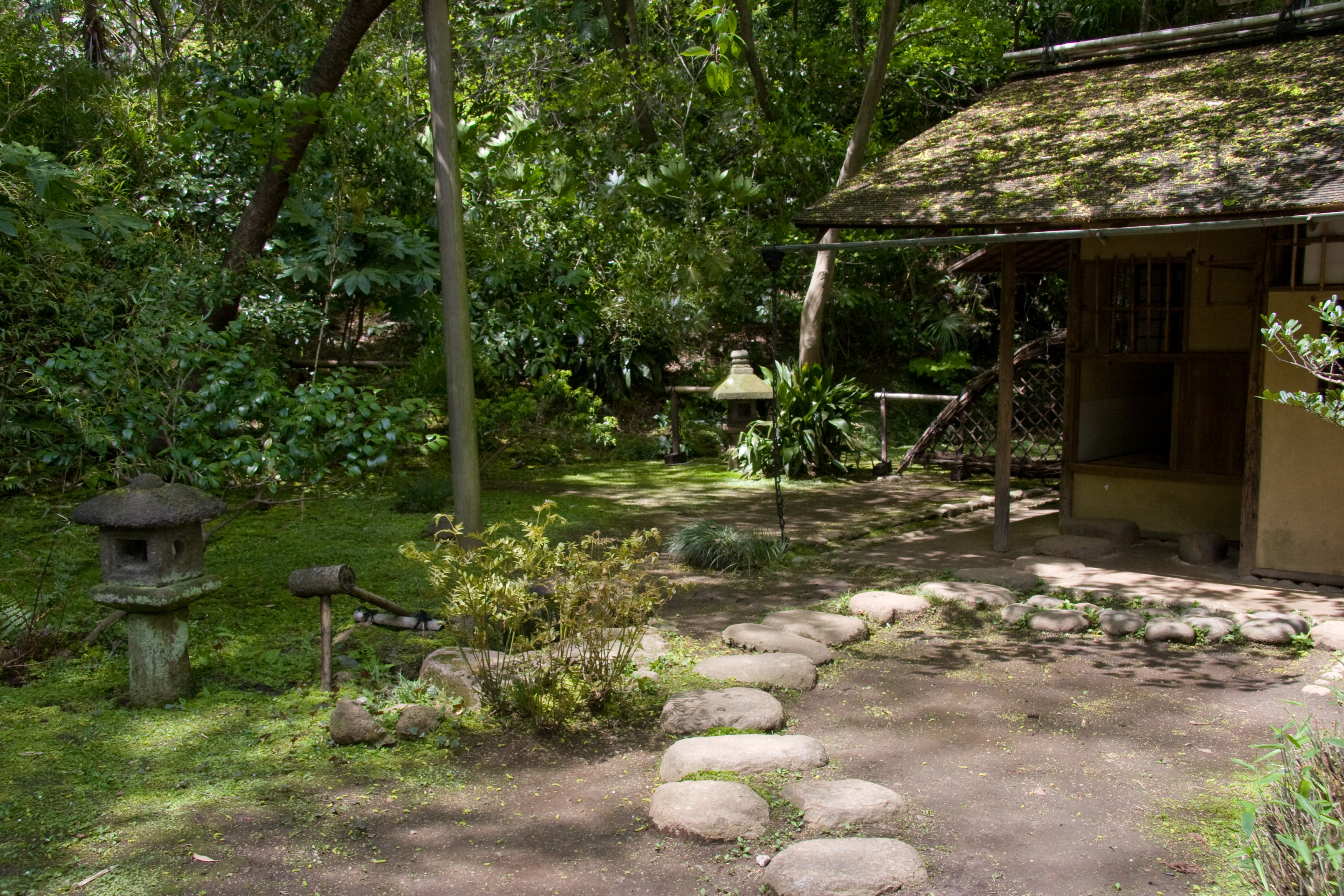 Shunsoro tea arbor in Senkeien garden, Yokohama, Japan. It has a 3 3/4-tatami ceremony room. It is thought to have been built by Urakusai Oda, the younger brother of Nobunaga Oda, and an adept of tea ceremony. It was built next to the Gekkaden at the Konzoin of Mimurotoji temple, in Uji, just south of Kyoto, where it was called "Kyusotei". It was moved to Senkeien in 1918.